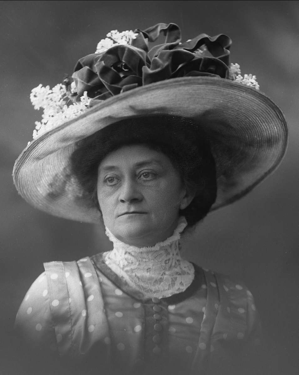 Depicted person: Hildur Andersen – Norwegian musician